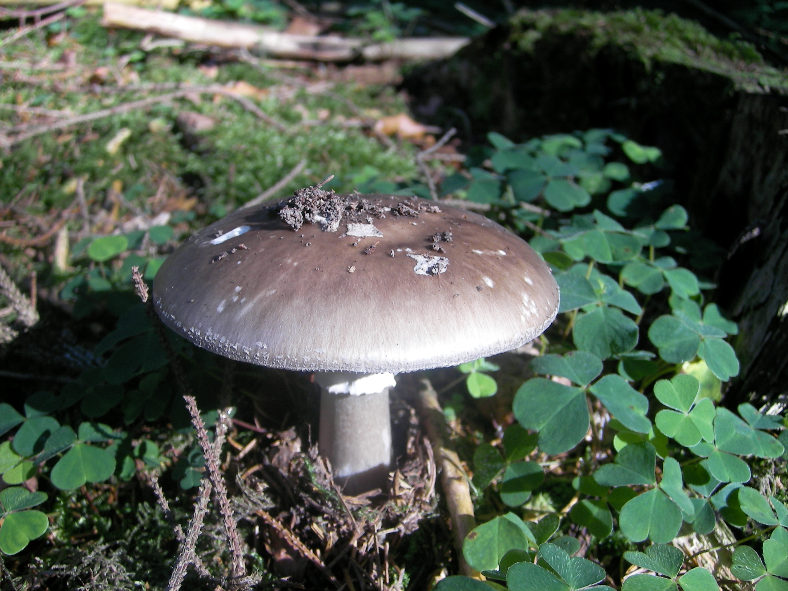 Amanita spissa